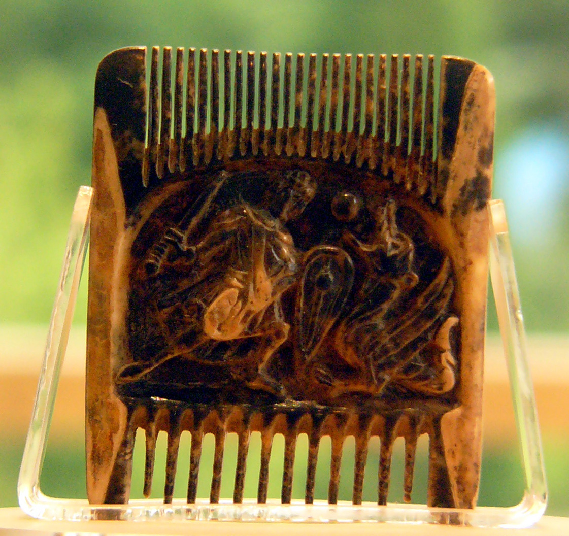 Reverse view of the Jedburgh Comb, a comb found in Jedburgh Abbey. The comb was carved around 1100 from walrus ivory and this side is decorated with a man fighting a dragon. The comb only about 5 cm wide by 4.34 cm long, and is made from a single piece of walrus ivory. It was probably made about 1100, but it is not known whether in England or on the Continent.